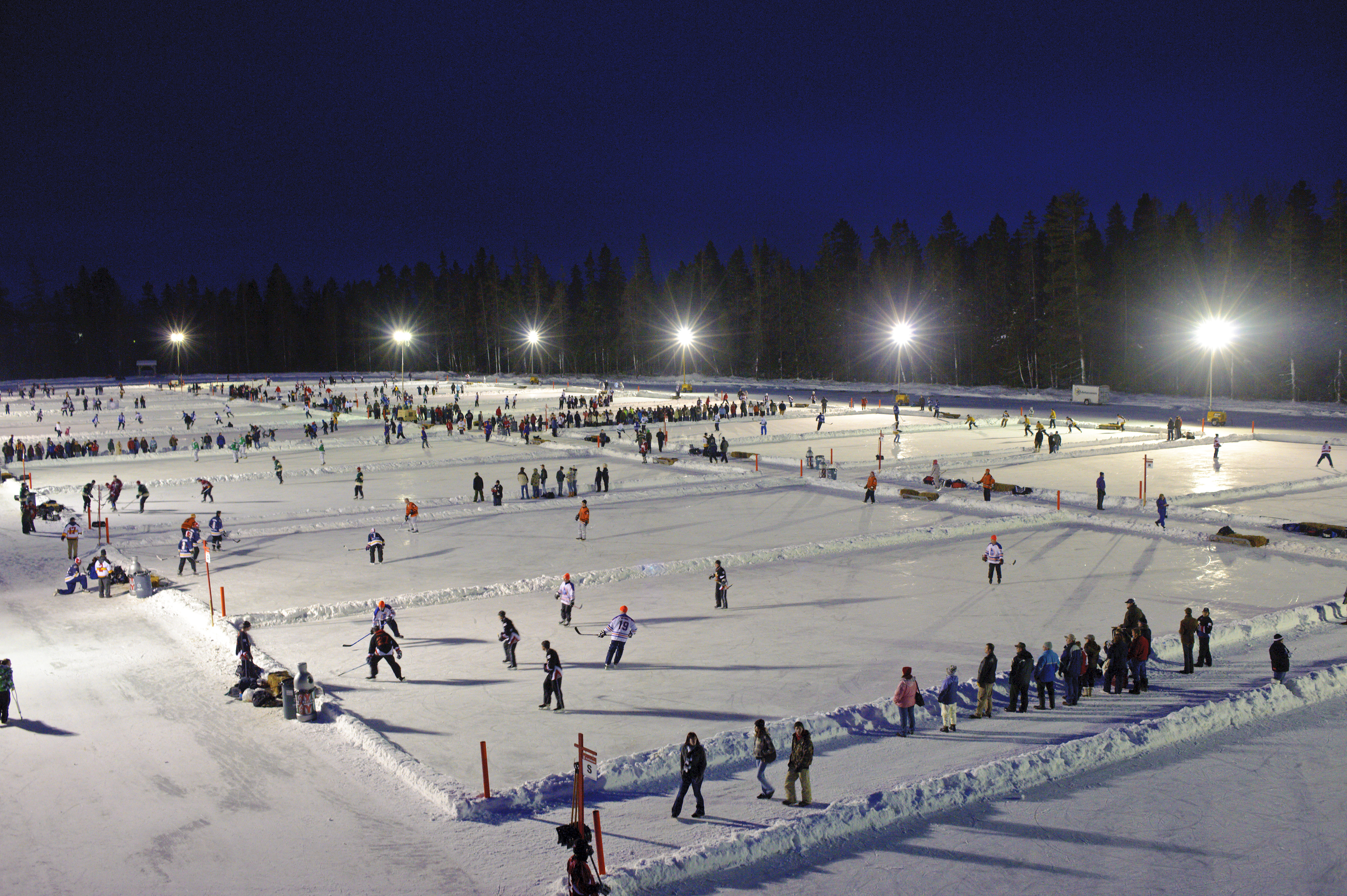 If hockey is Canada's most popular game, then nobody does a better job of making us feel like Canadians than the people of Plaster Rock. Every year, this community brings together 120 teams from around the world to compete for the "World Pond Hockey Championship. New Brunswick, Canada.